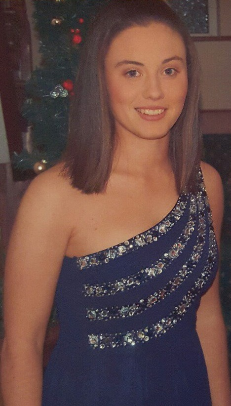 Picture of Lisa Maguire, golfer, in November 2015